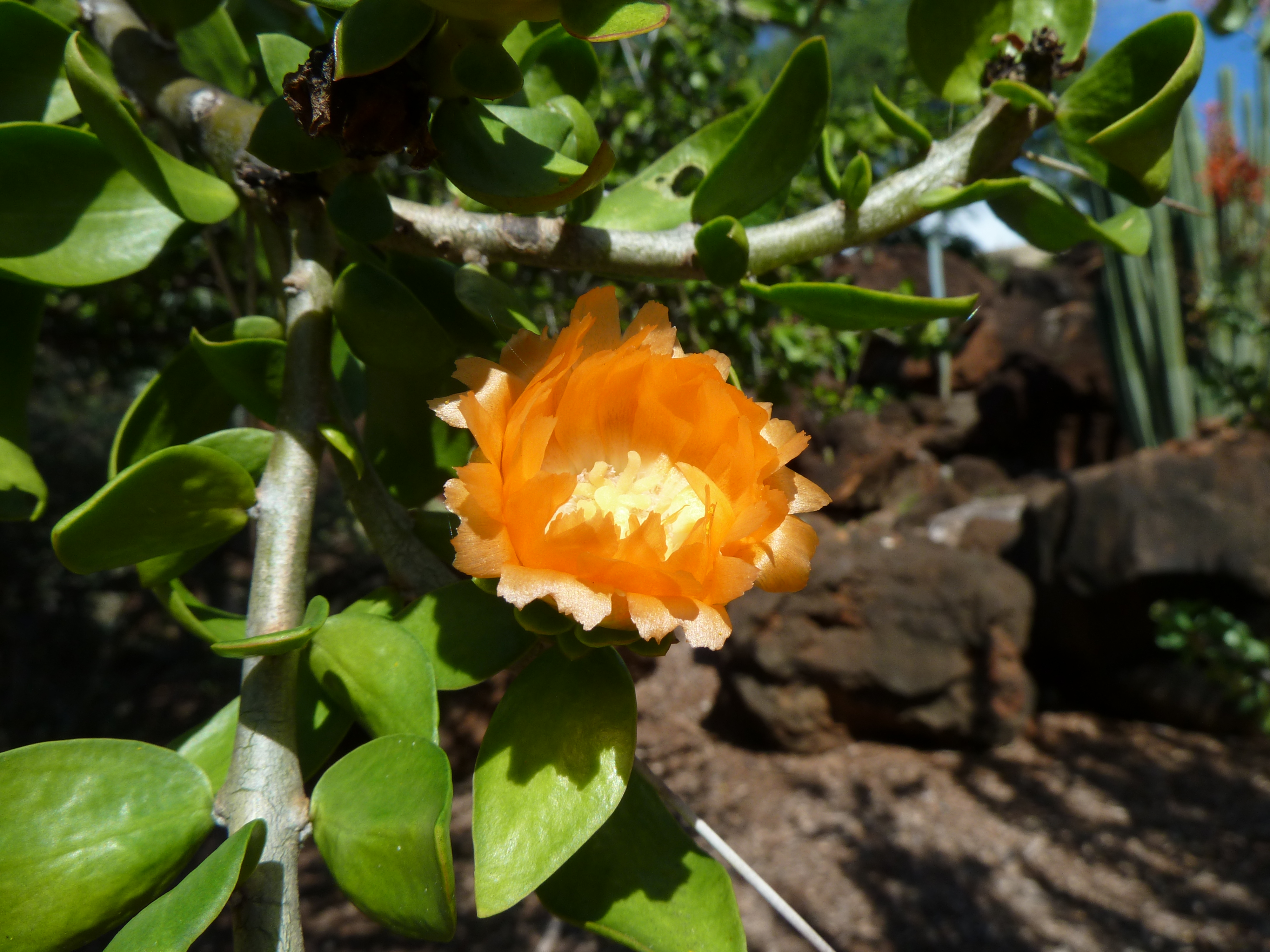 Leuenbergeria lychnidiflora at the Kapi'olani Community College Cactus Garden on Oahu